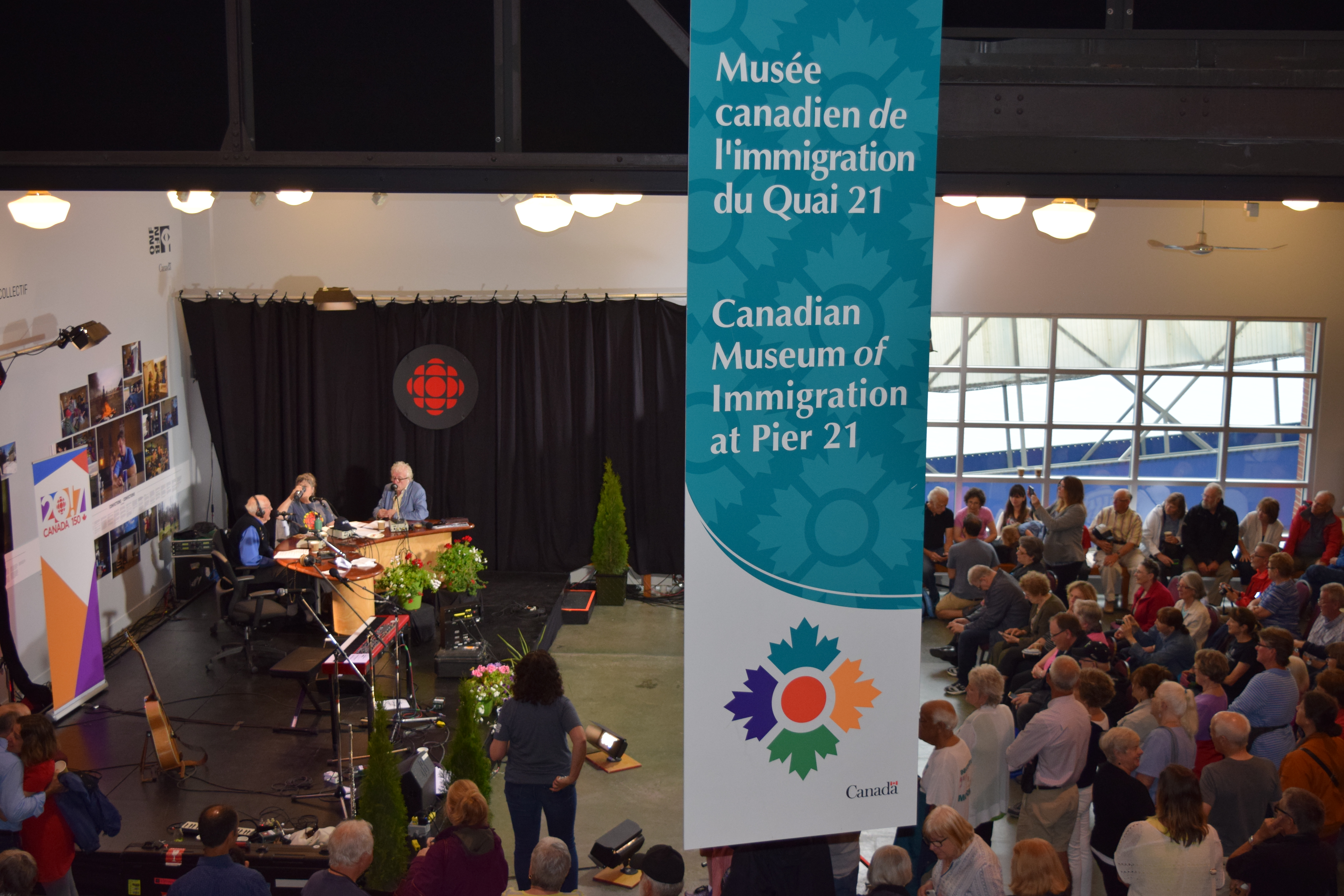 CBC Radio's show Information Morning broadcasts live from the Canadian Museum of Immigration at Pier 21 during a special birthday show celebrating the program's 47th anniversary on June 30, 2017.